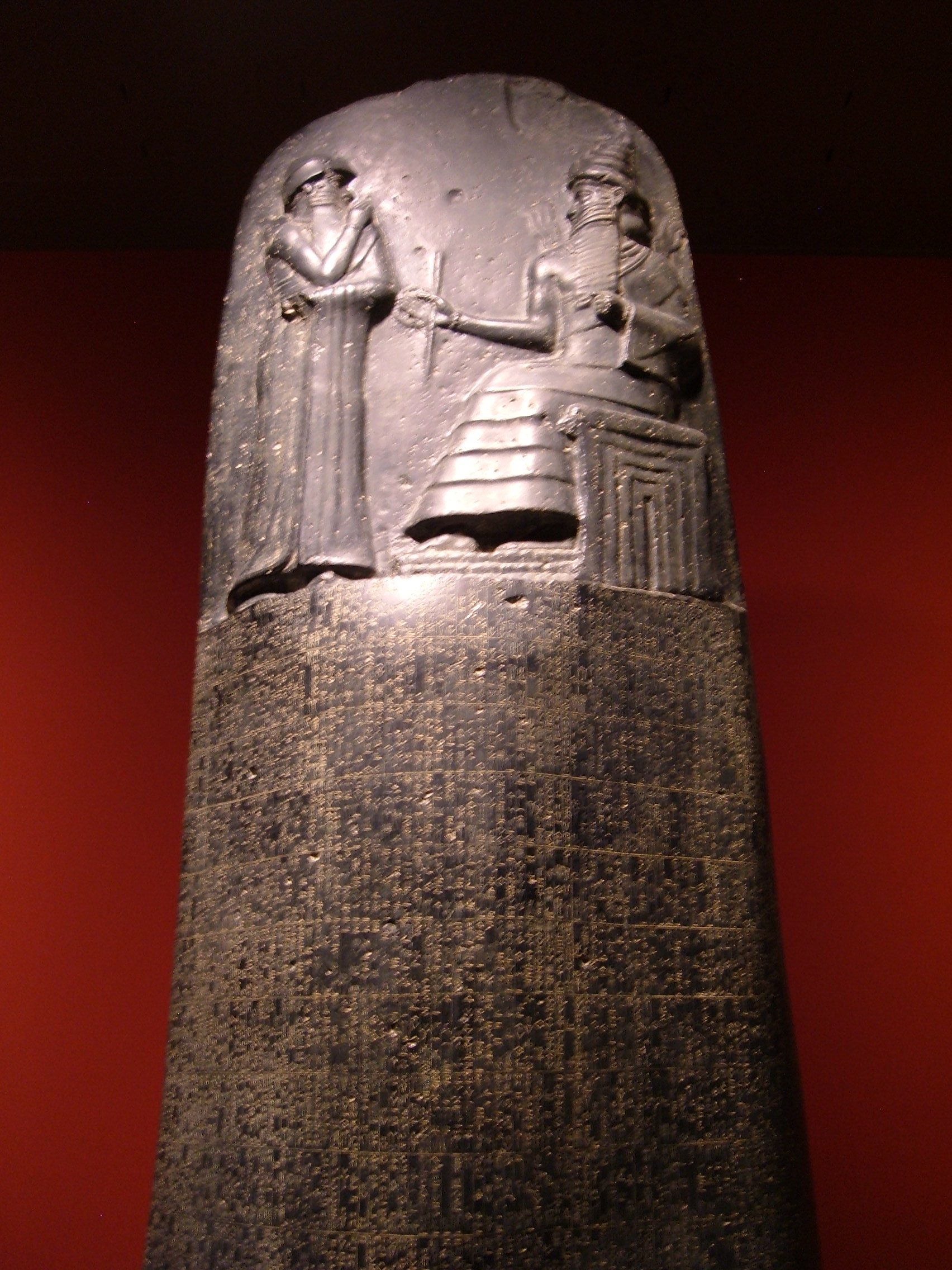 Code of Hammurabi replica stele on display at the Rosicrucian Egyptian Museum in San Jose, California.